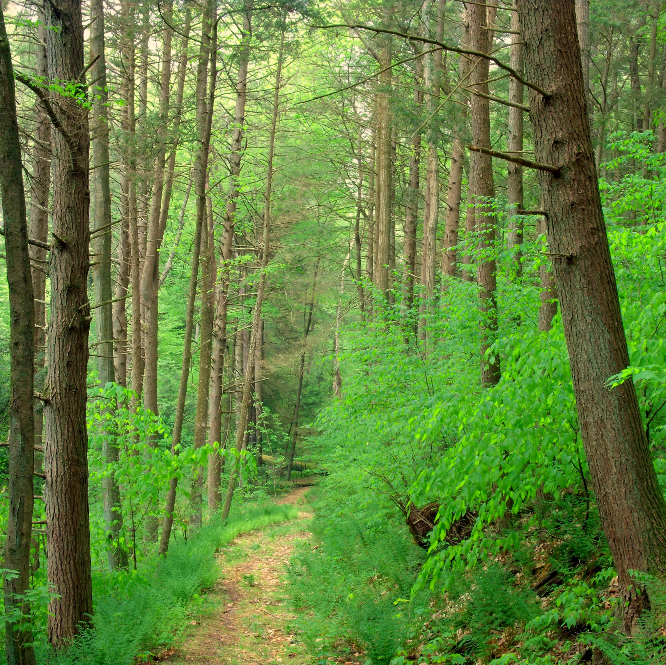 Jakey Hollow Natural Area, Weiser State Forest, Columbia County. The natural area protects a small tract of old-growth hemlocks, white pines, and northern hardwoods in a deep ravine. Taken in May 2011. All photos from this location here.